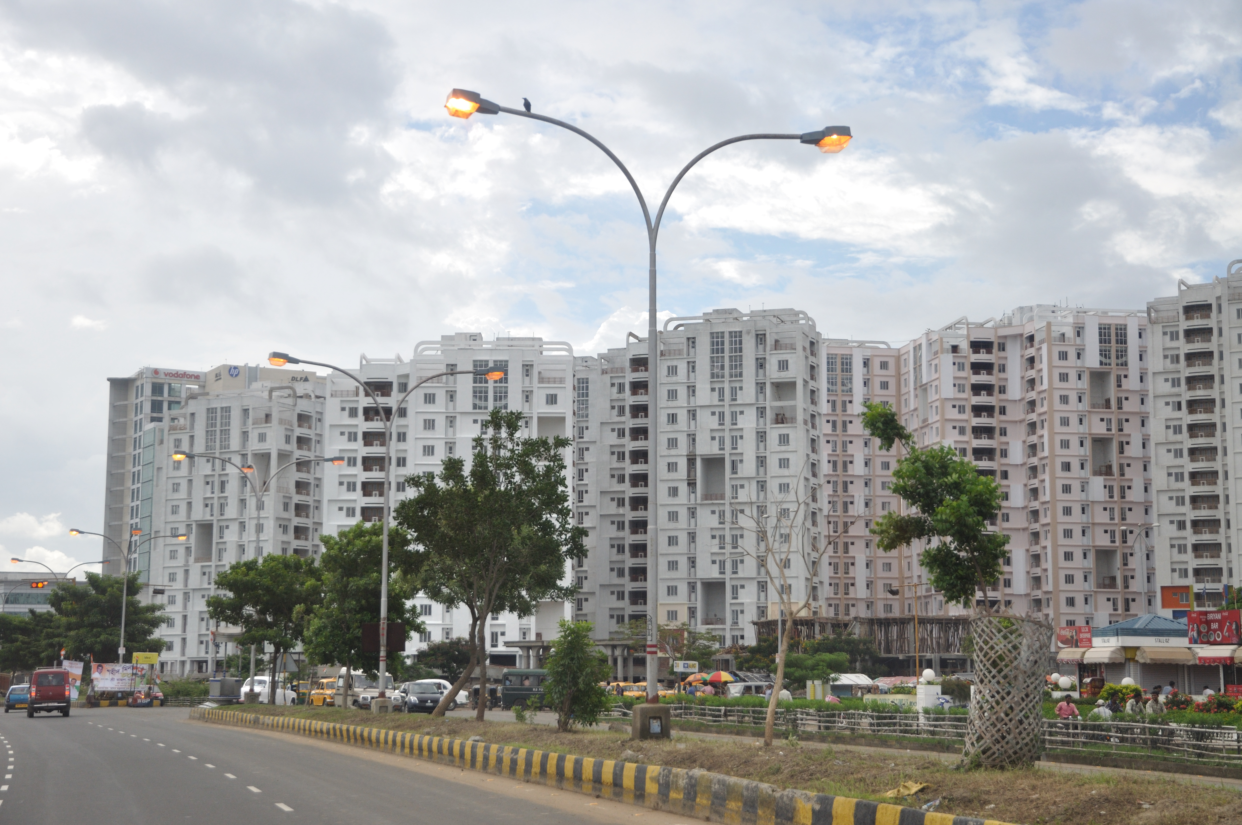 Eastern High – a high income group housing project is being developed by the West Bengal Housing Development Board at Rajarhat or Jyoti Basu Nagar (renamed on 7th October, 2010) West Bengal, near Kolkata.